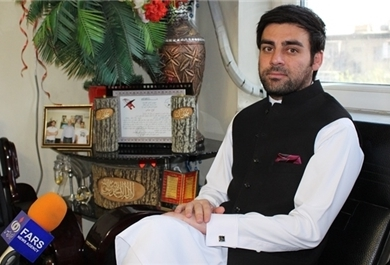 Baktash Siawash